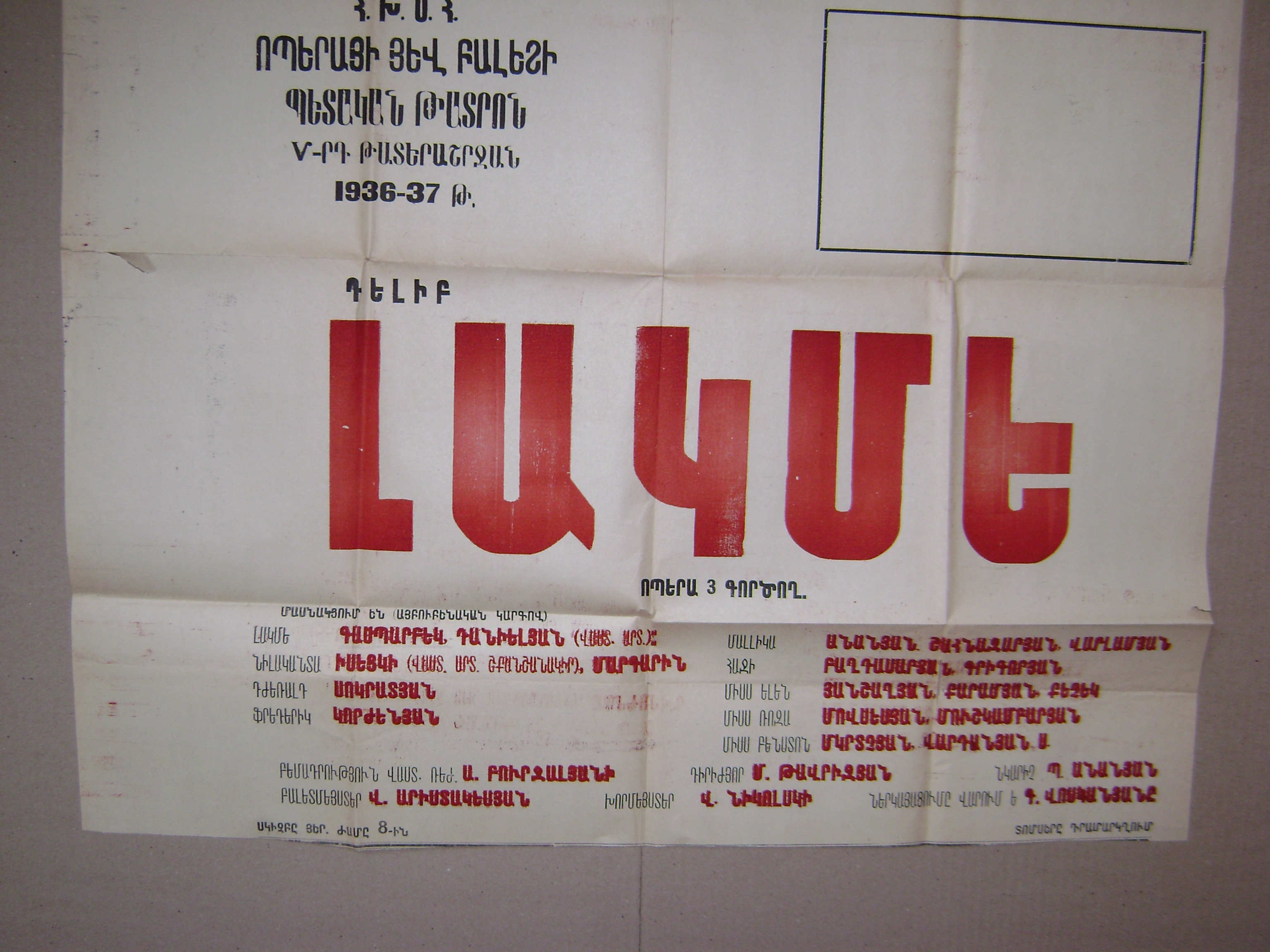 Lakmé opera poster, 1936, Yerevan Opera Theatre